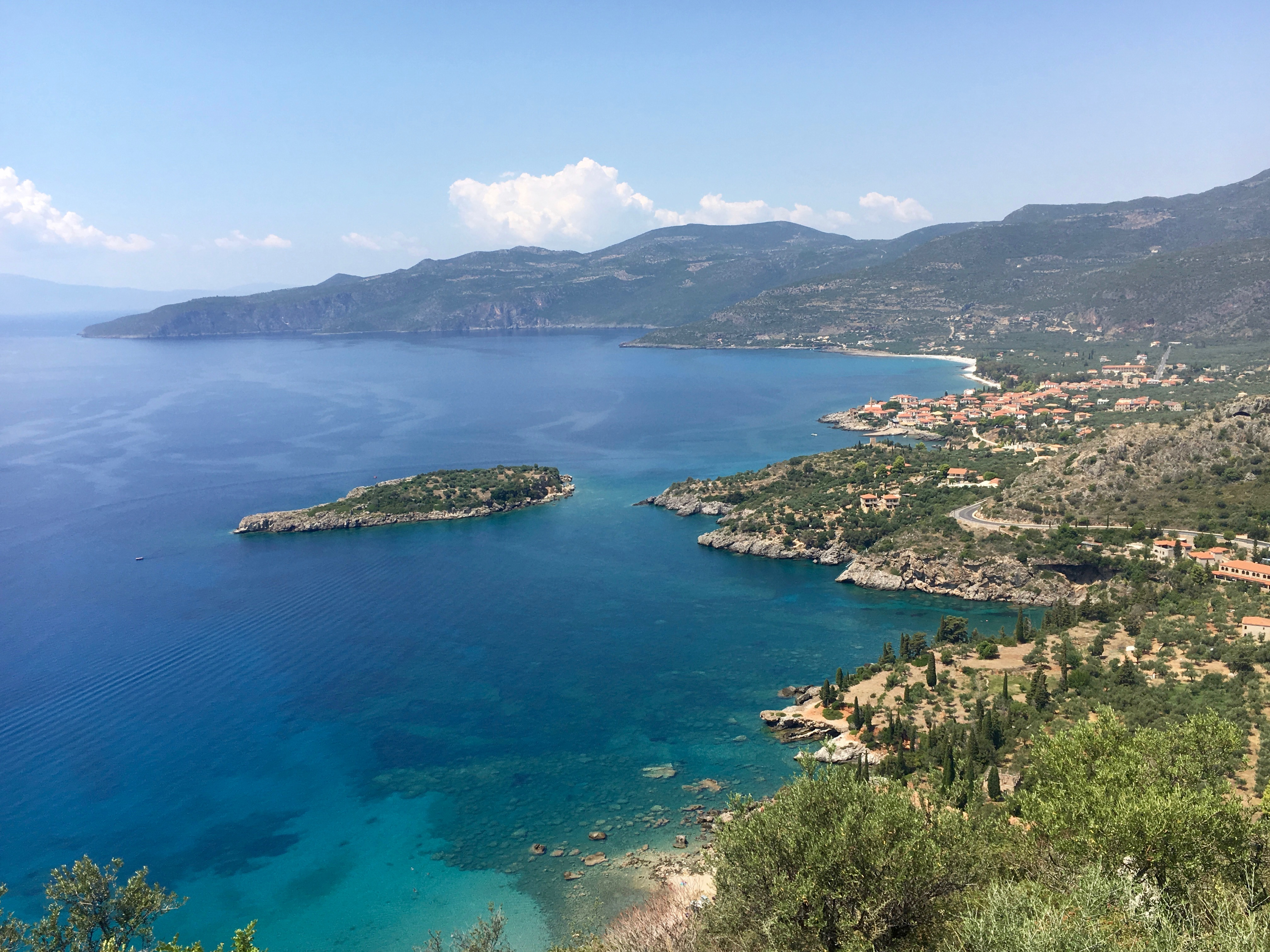 View of Kardamyli, Greece from Proastio on a cliff to the south